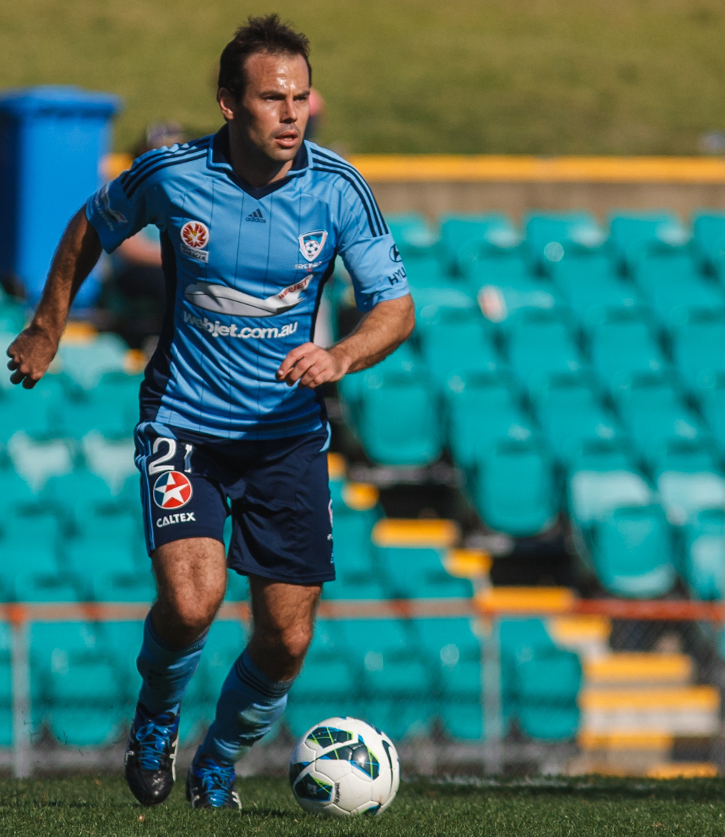 Paul Reid playing in a pre-season match between Sydney FC and Newcastle Jets.